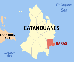 Map of Catanduanes showing the location of Baras